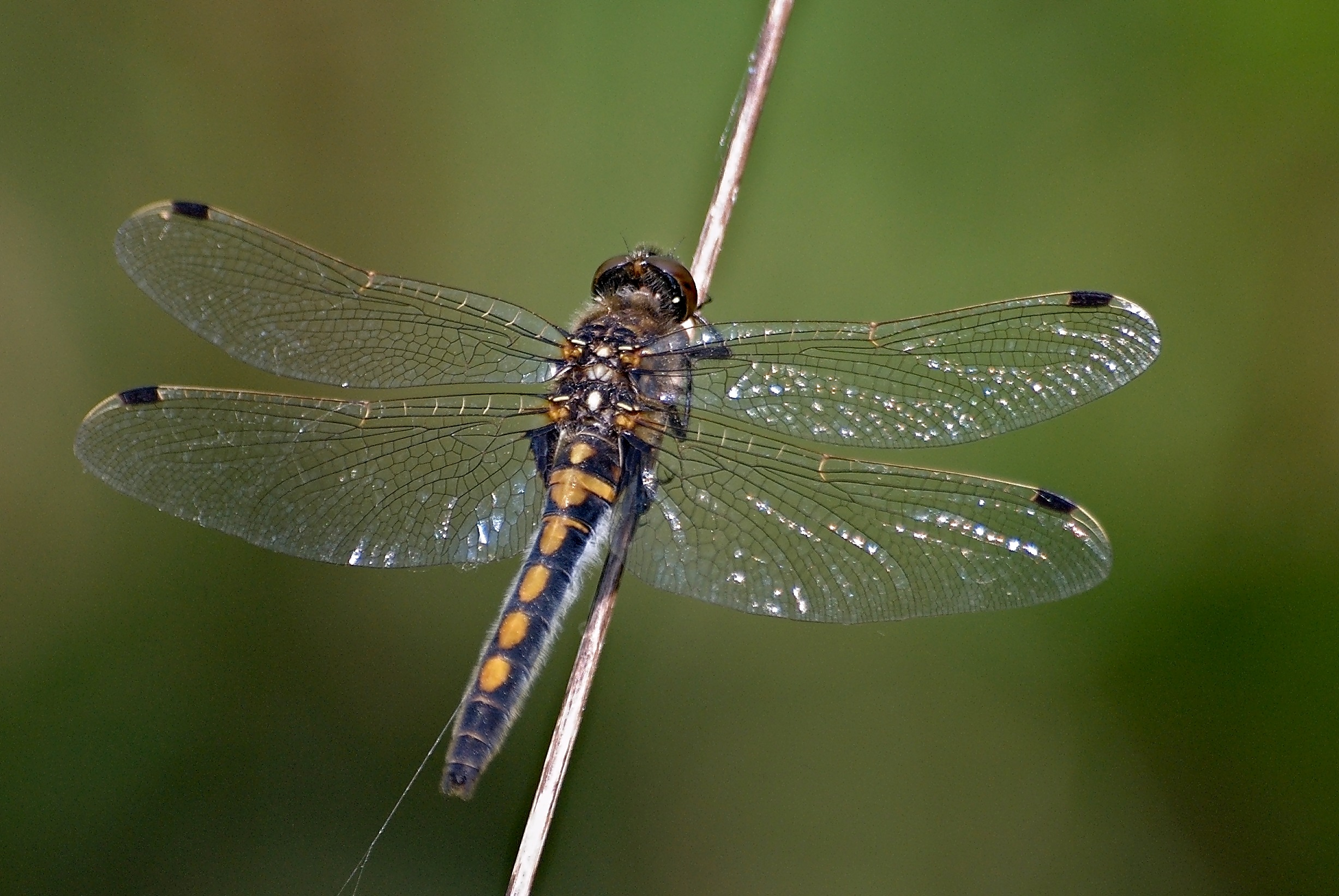 Name: Leucorrhinia rubicunda. Family: Libellulidae. Location: Münster, NRW, Germany